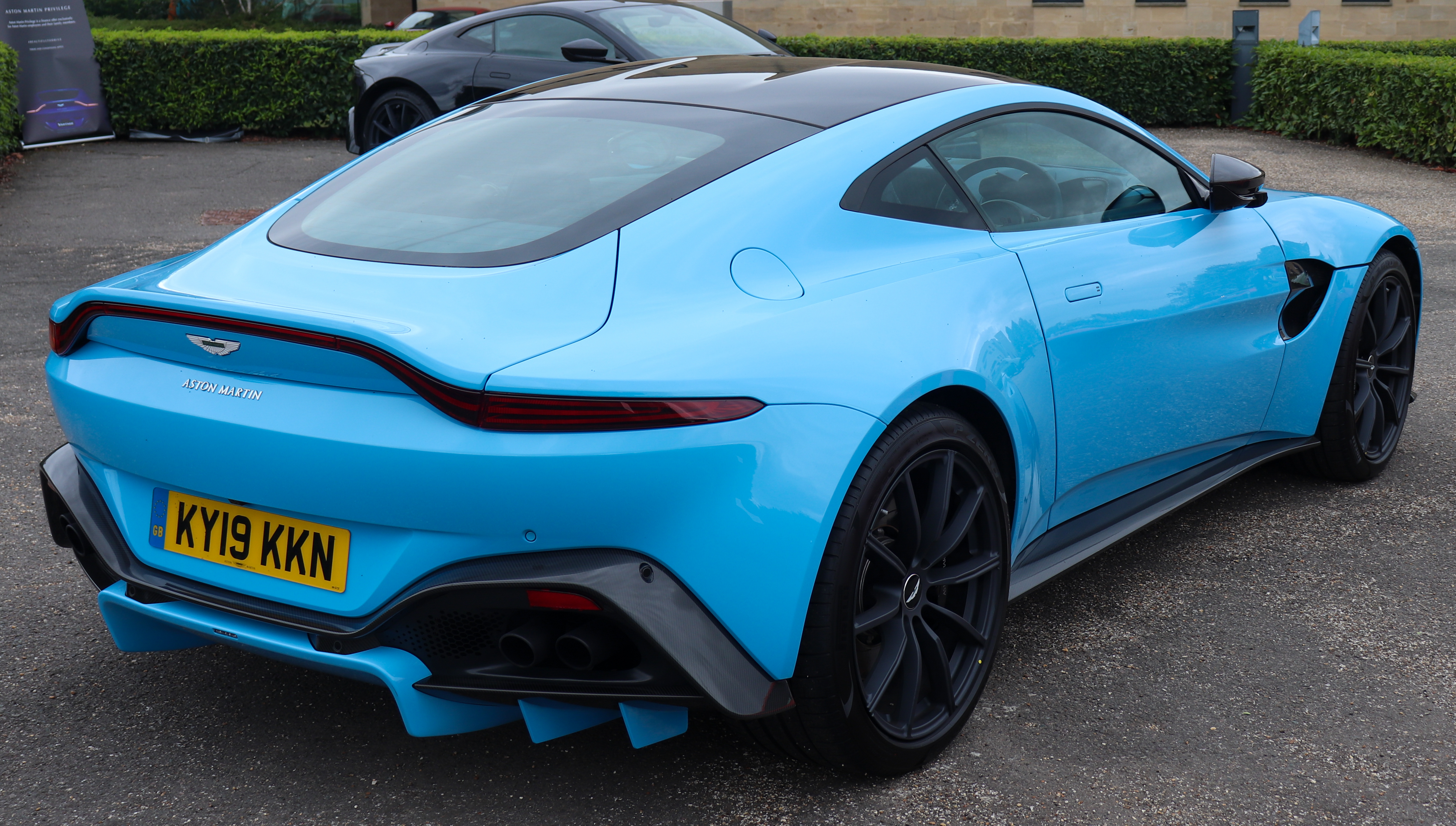 2019 Aston Martin Vantage V8 Automatic 4.0 Rear Taken at the Aston Martin Lagonda factory, Gaydon